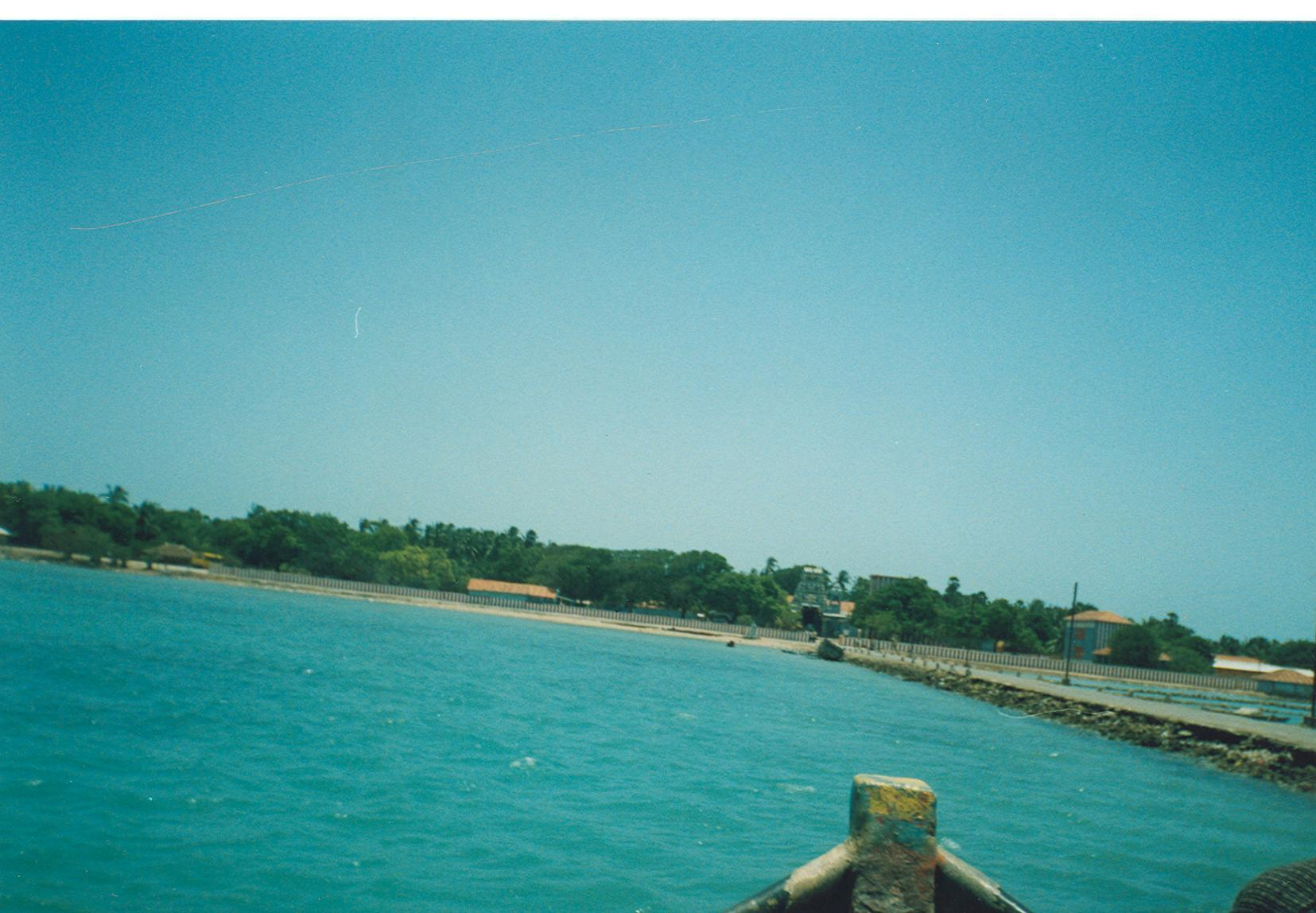 Nainativu Nahanooshani Amman Kovil view from the sea